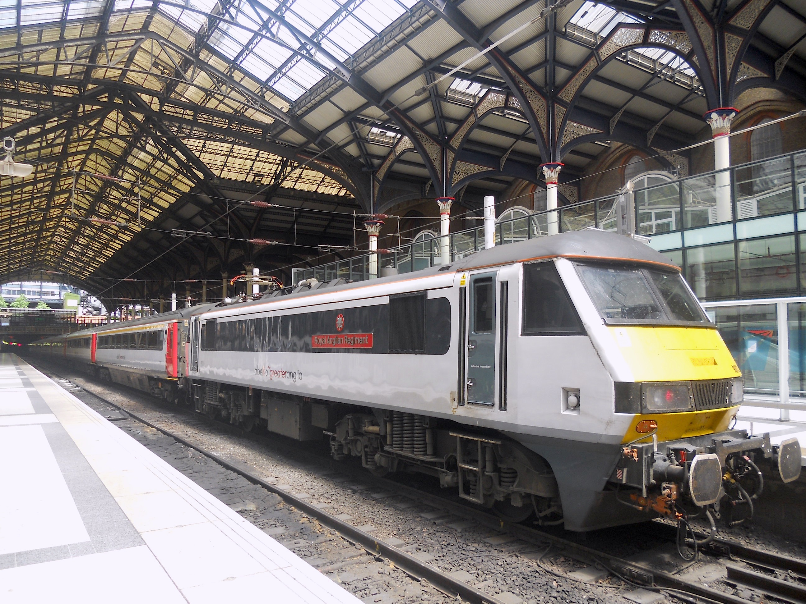 Abellio Greater Anglia Class 90 No. 90012 'Royal Anglian Regiment' and train at London Liverpool Street